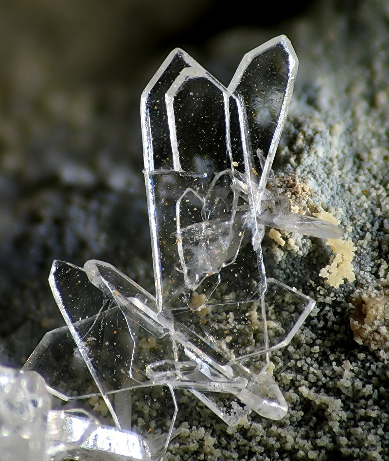 Fiedlerite Locality: Lavrion Port slag locality, Lavrion (Laurion; Laurium), Lavrion District slag localities, Lavrion (Laurion; Laurium) District, Attikí (Attica; Attika) Prefecture, Greece Picture width 3 mm. Collection and photograph Christian Rewitzer This Photo was Photo of the Day - 2nd Aug 2007